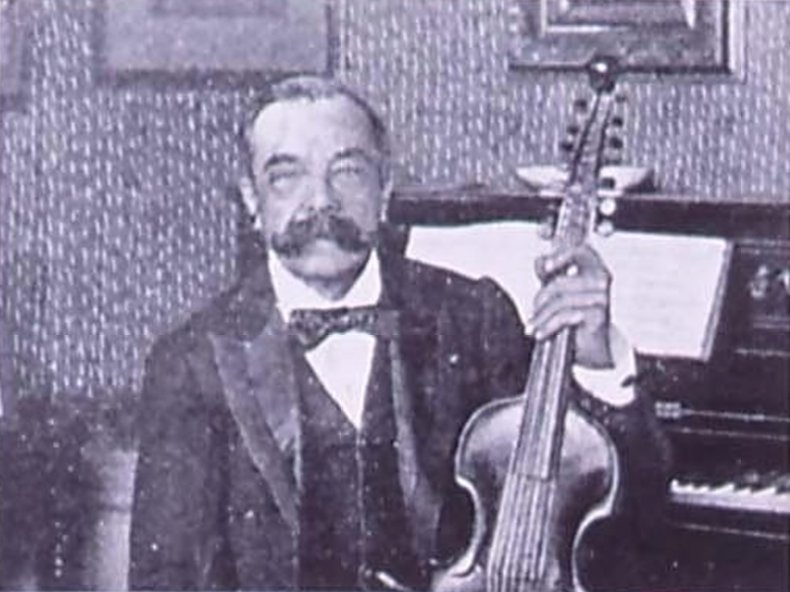 Photograph of Louis Van Waefelghem (1840–1908), Belgian composer and viola d'amore player.